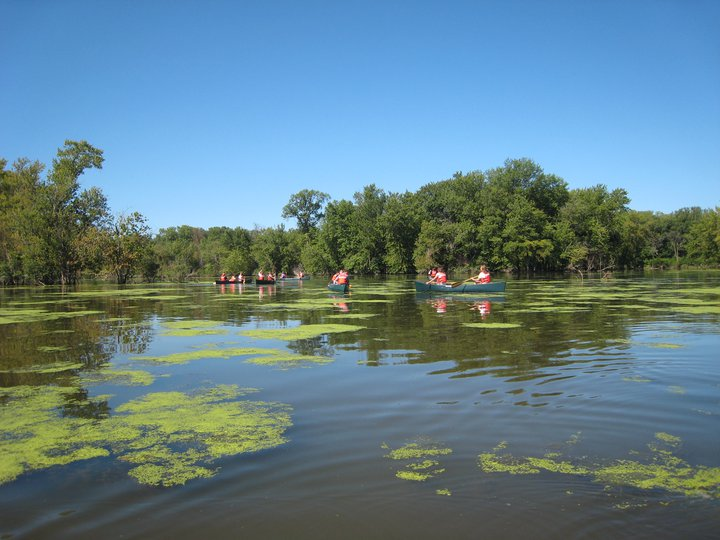 Upper Mississippi River National Wildlife Refuge Photo: USFWS The Upper Mississippi River National Wildlife Refuge, created in 1924, was one of the first refuges intended primarily for the protection of migratory waterfowl. Lying in four states - Wisconsin, Minnesota, Iowa and Indiana - it protects essential habitat along the Central Flyway.